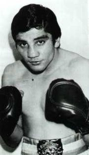 Gustavo Ballas